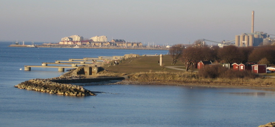 Sibbarp recreation area in winter/spring.